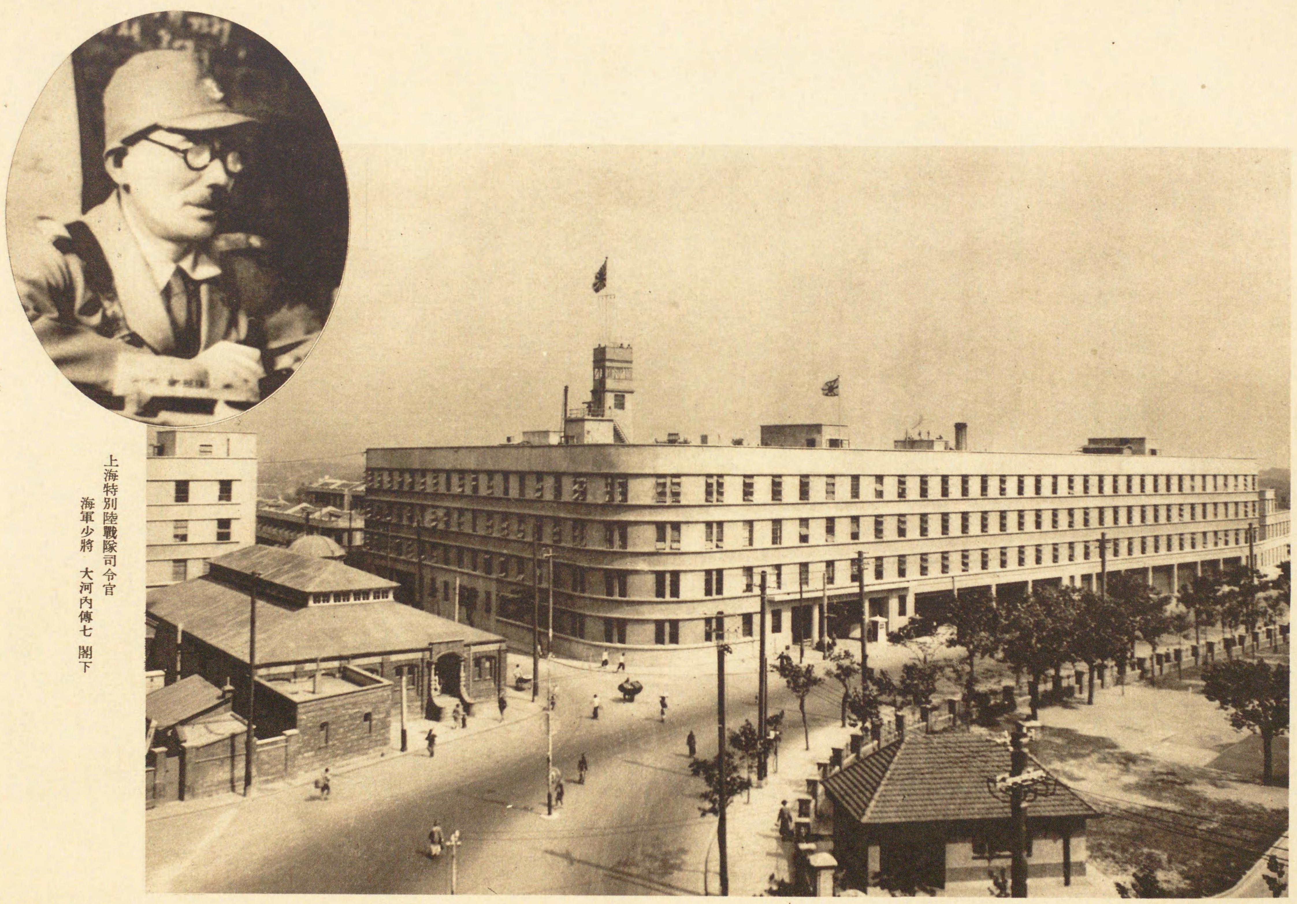 Headquarters of the Shanghai Special Naval Landing Force and its commander Rear Admiral Denshichi Ōkouchi